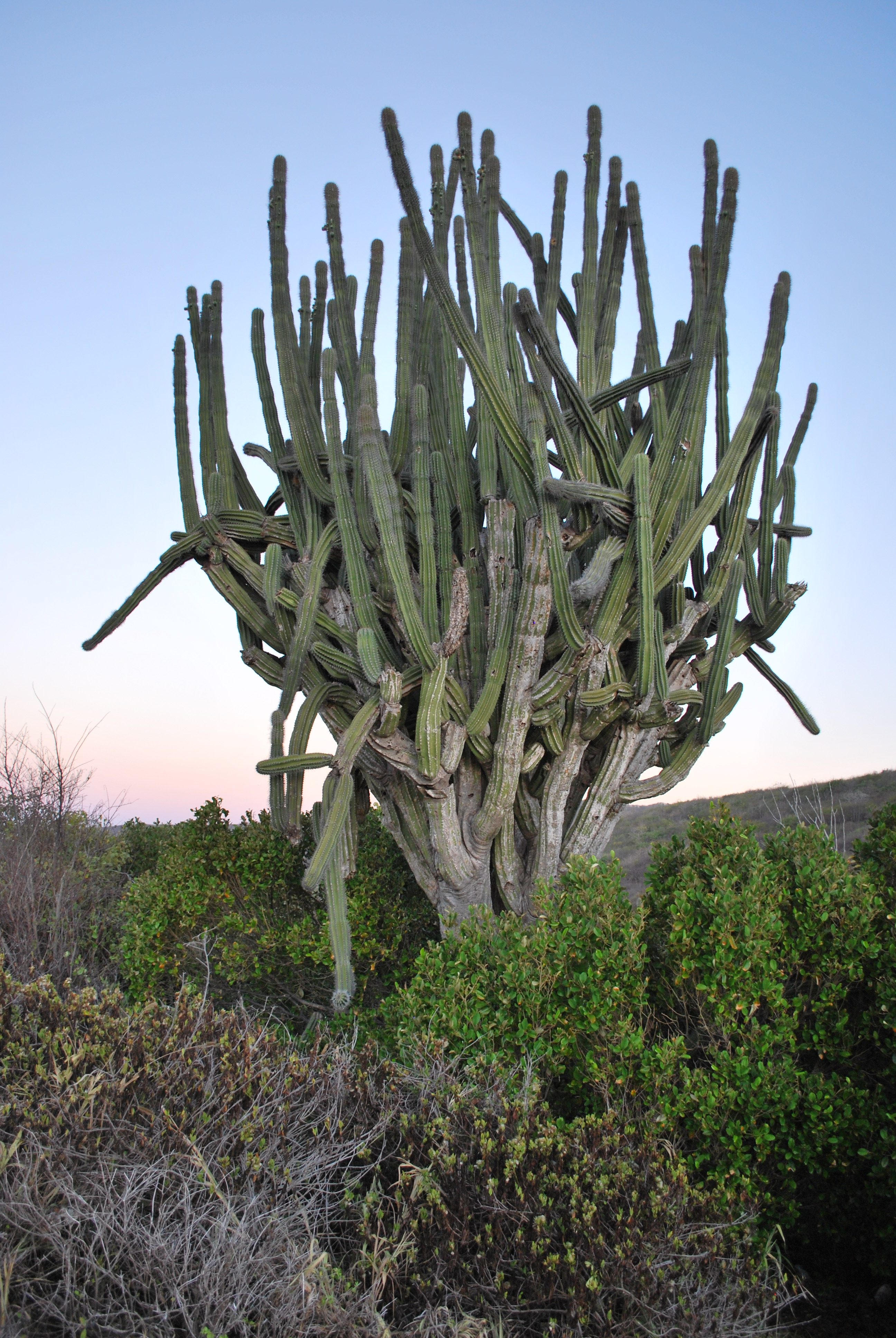 Lone organ cactus at Punta Cometa, Mazunte, Oaxaca, Mexico